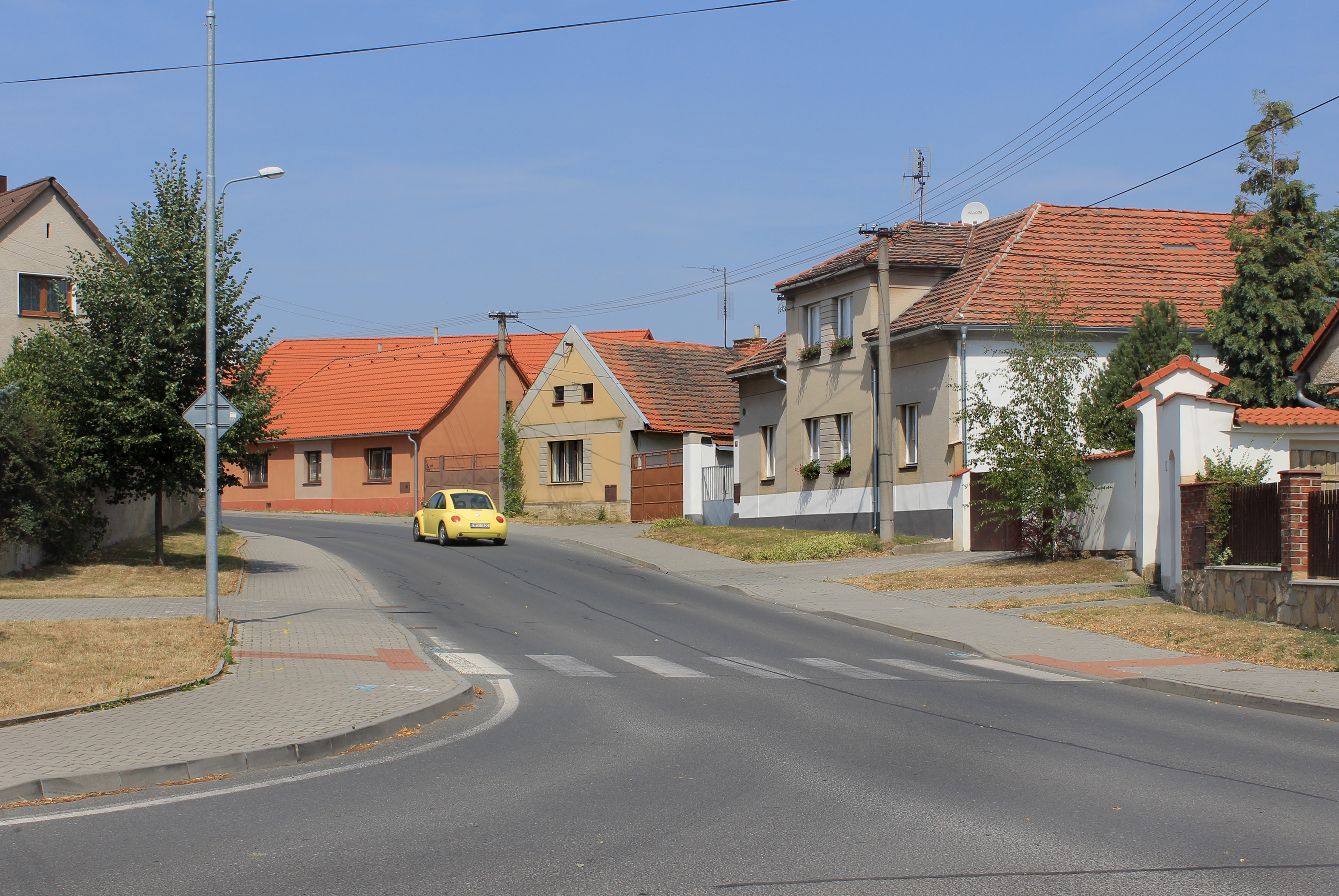 Middle part of Útušice, Czech Republic.